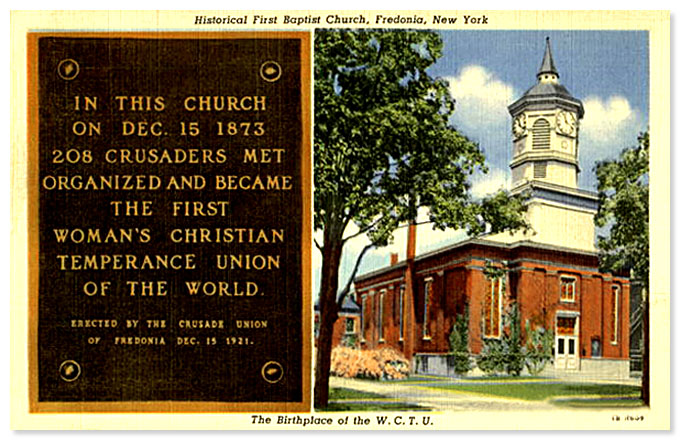 Place of foundation of the first local Woman's Christian Temperance Union